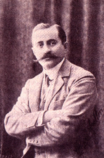 Behaeddin Shakir (1872-1922) was a founding member of the Committee of Union and Progress (CUP) which ruled the Ottoman Empire between 1908-1918.